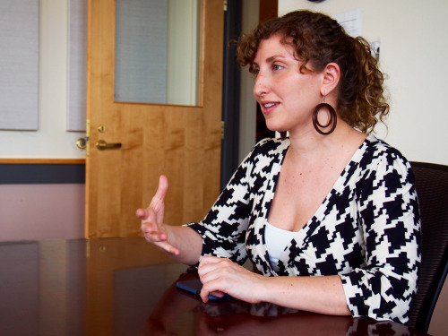 Nona Willis Aronowitz speaking to students at Wesleyan University